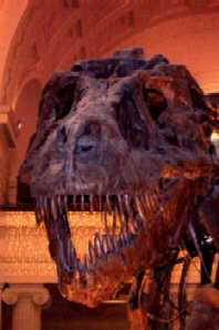 T. Rex skull reconstructed, at Field Museum of Natural History, Chicago. The larger teeth are over 4 inches long. The skull will comfortably hold a human-sized morsel, or two. Sue as the skeleton is nicknamed, for its discoverer, stands in the main display hall of the Field Museum. This T. Rex is the largest, most complete skeleton currently known. I Ancheta Wis, agree to multi-license all my images which were taken at the User:Ancheta Wis|Ancheta Wis, agree to multi-license all my images which were taken at the Field Museum of Natural History